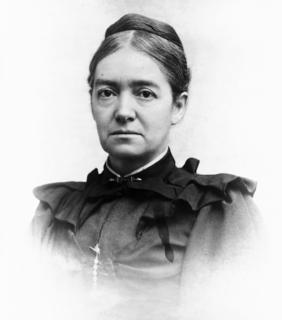 Portrait of Mary Corinna Putnam Jacobi